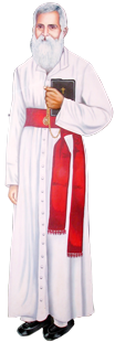 Rev. Fr. Lourdes Xavier after being appointed as Parish Priest of Poondi on 1st September 1955.